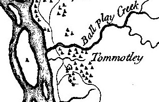 Detail of Henry Timberlake's 1765 "Draught of the Cherokee Country," showing the location and layout of the Cherokee town of Tomotley. The Tomotley site is now submerged under Tellico Lake in modern-day Monroe County, Tennessee, in the southeastern United States.